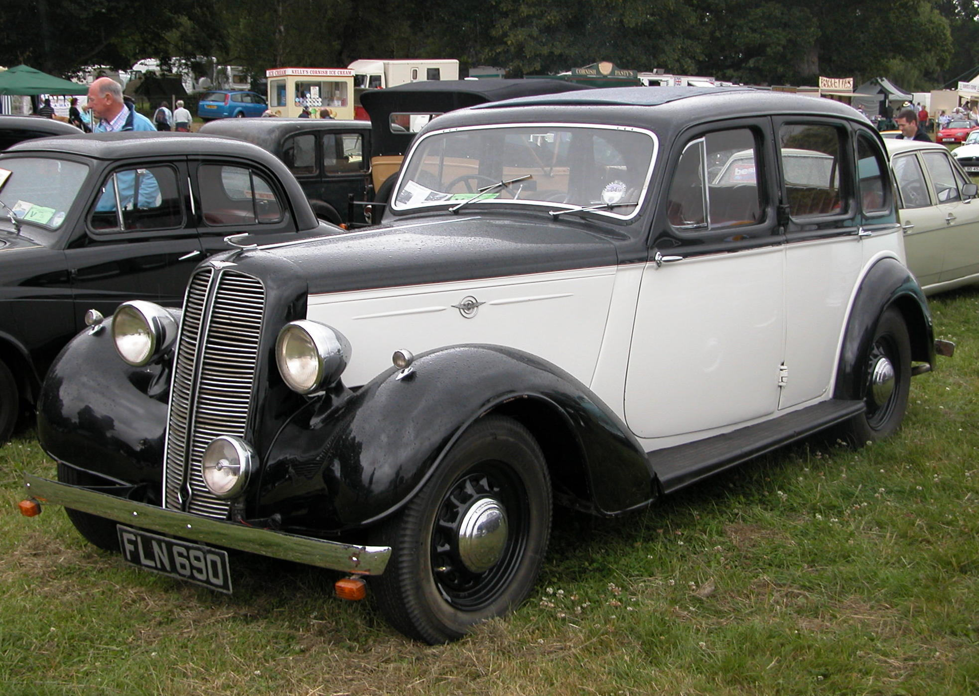 1939 Hillman 14 (DVLA) first registered 14 January 1939, 1701 cc Historic Vehicle Gathering, Crash Box and Classic Car Club of Devon, Powderham Castle, Devon. July 11 2009.